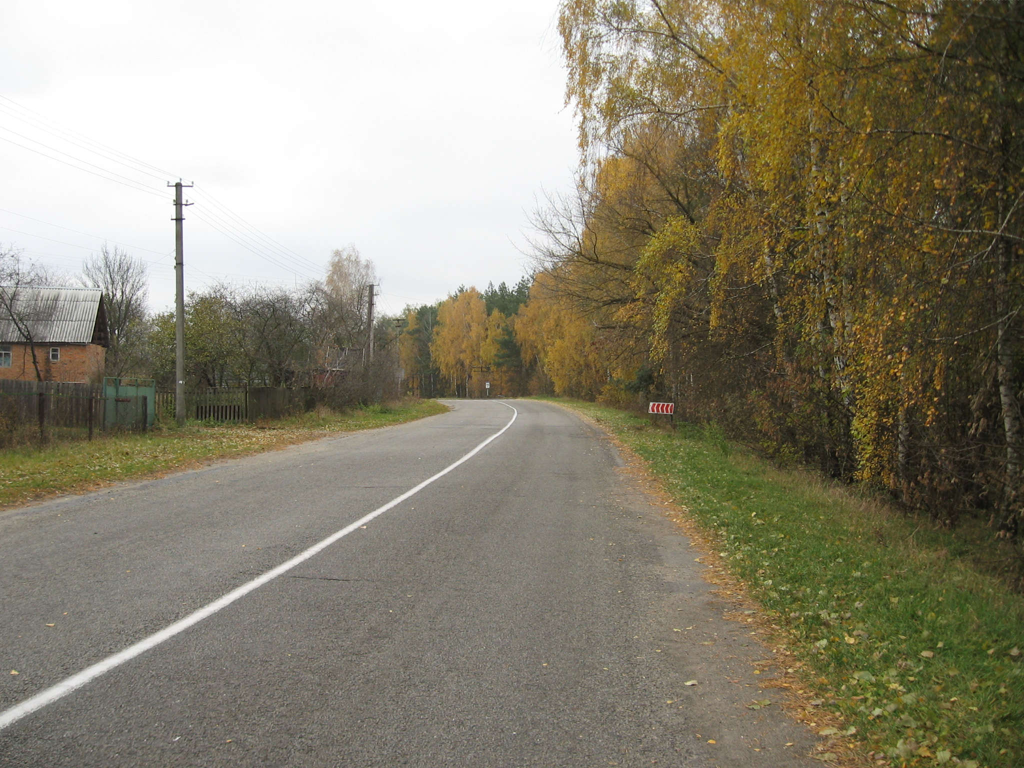 Autumn in Khomutets, Zhytomyr Oblast, Ukraine